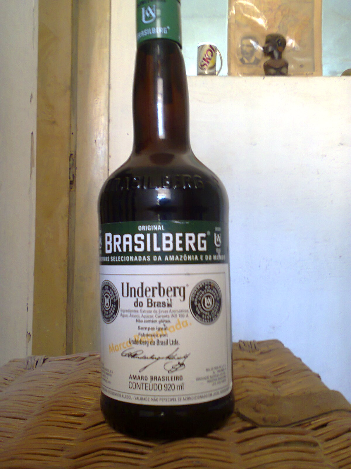 Underberg do Brasil